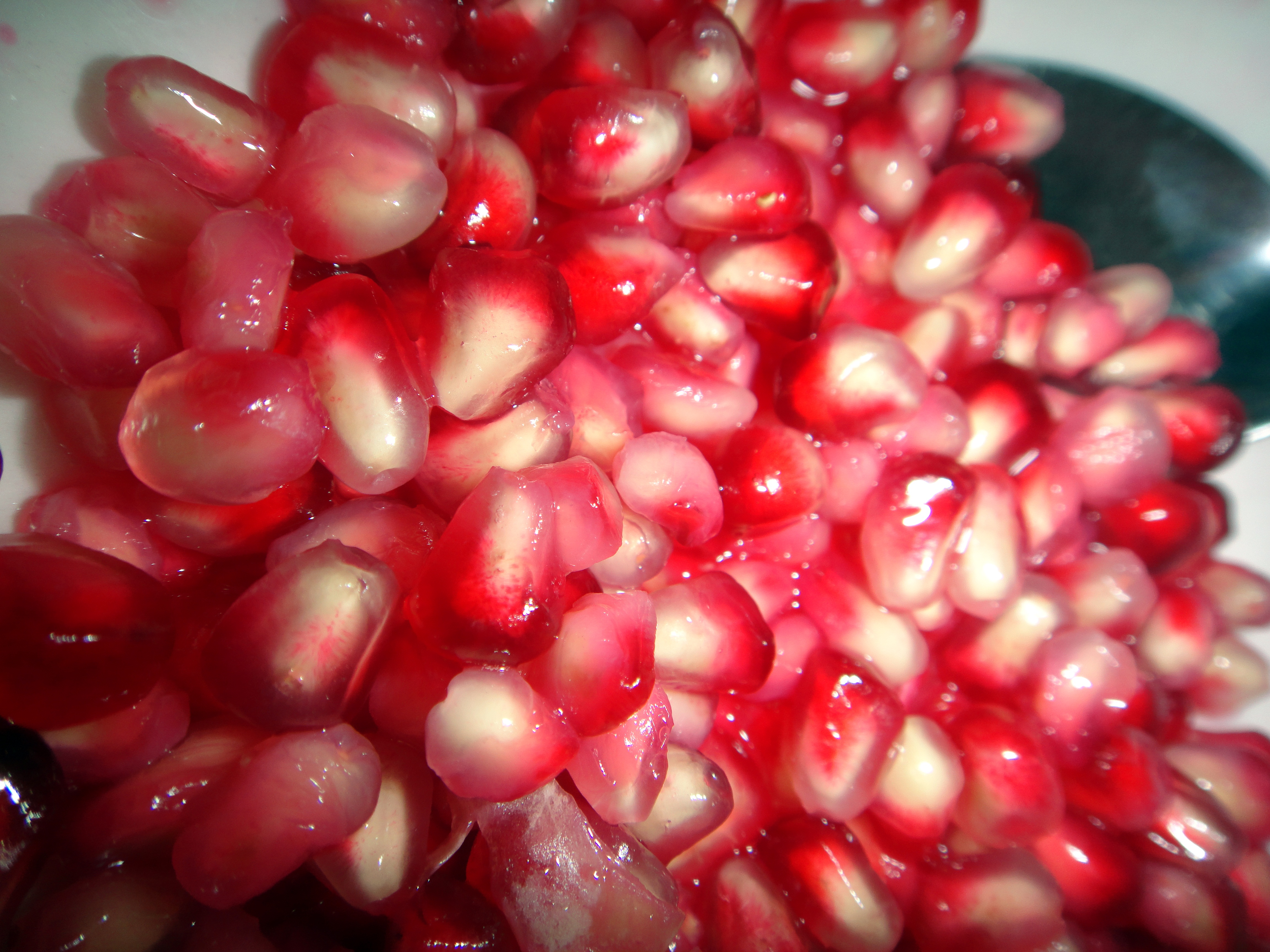 Pomegranade seeds on a plate